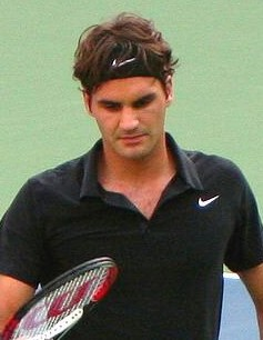 crop of Roger Federer wins the 2007 US Open